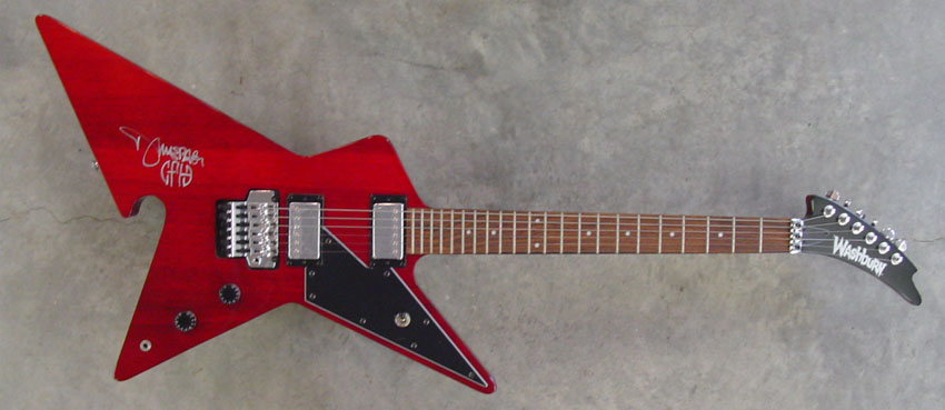 Washburn Culprit CP2003 electric solid-body guitar